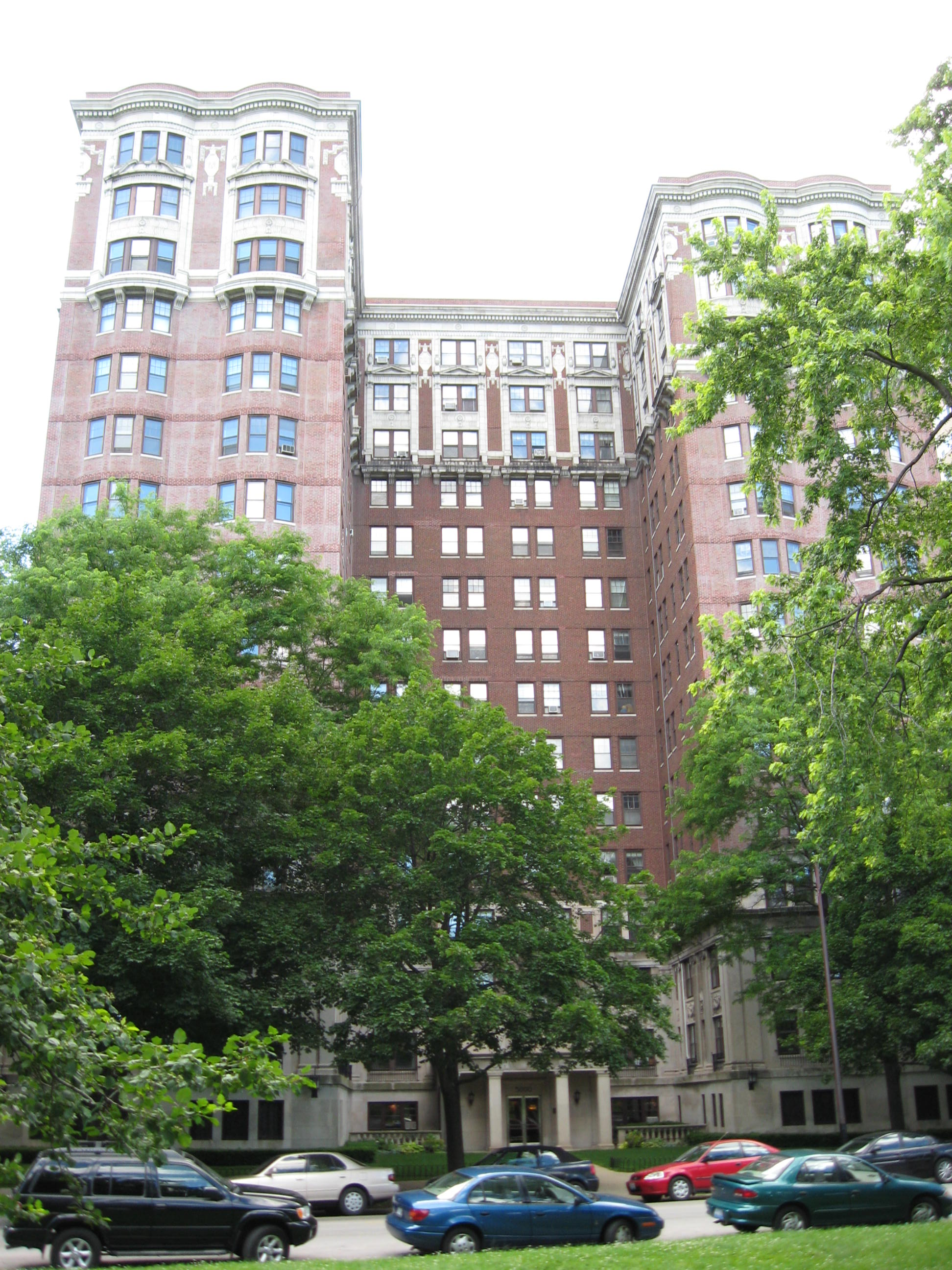 Photo of The Aquitania, a historic building in Chicago, Illinois.